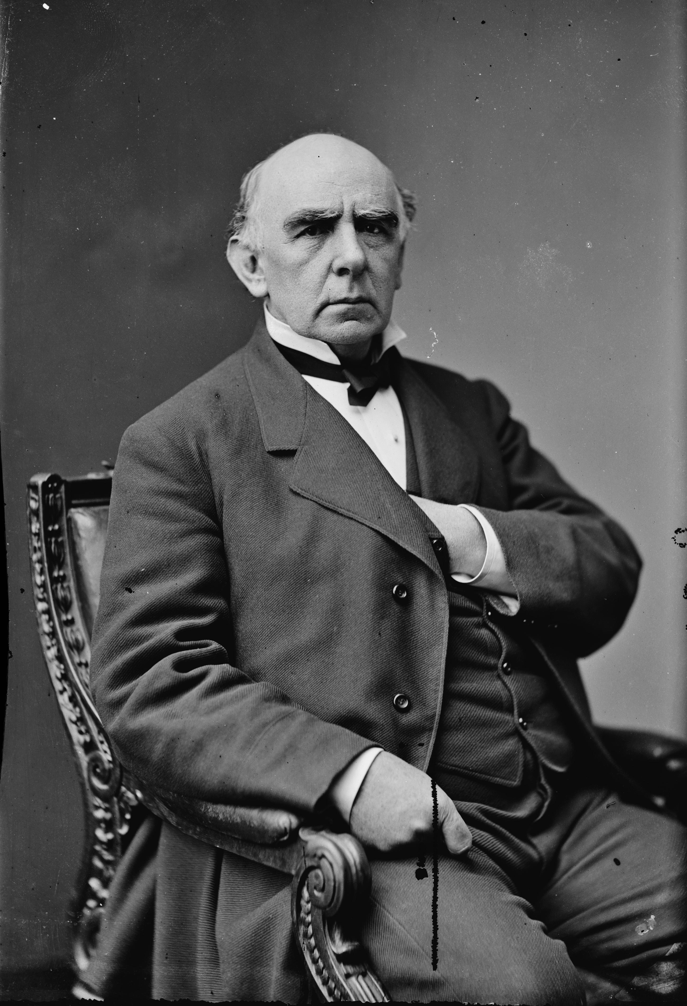 Edward Clark (architect). Library of Congress description: "Clark (Architect of Capitol)"